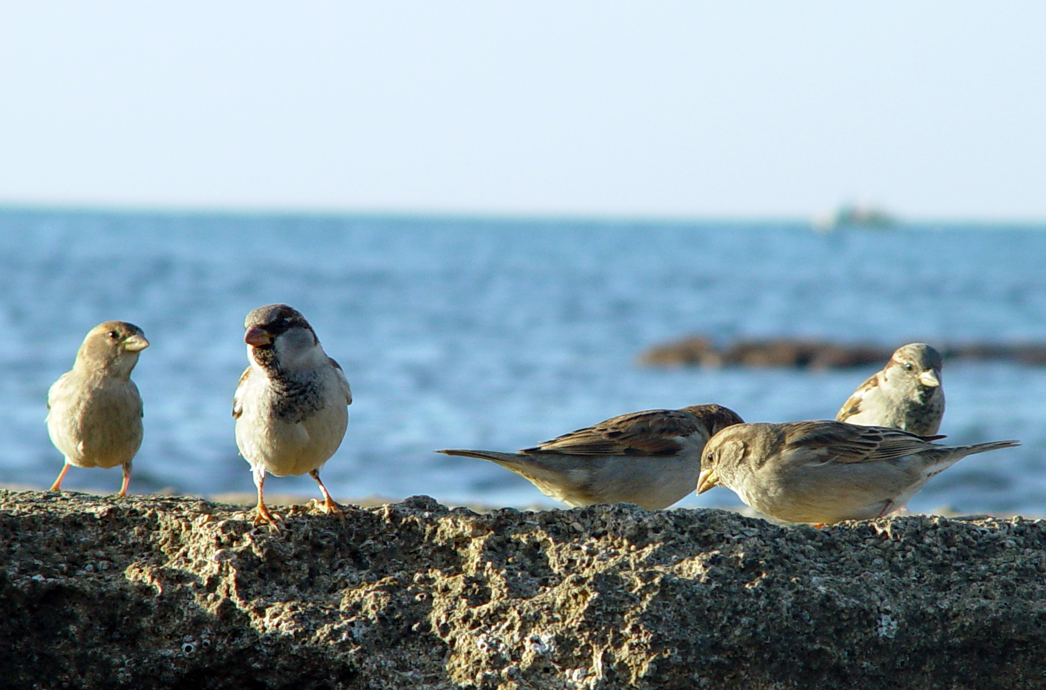 A group of House Sparrows